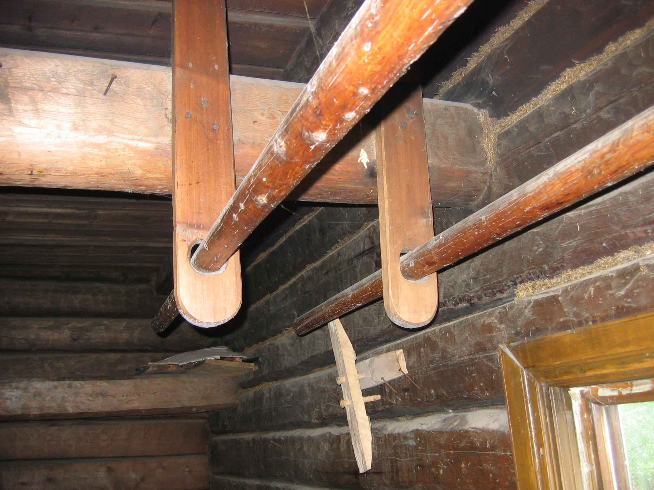 The beams of the wilderness house Kapelo in Utajärvi, Finland.